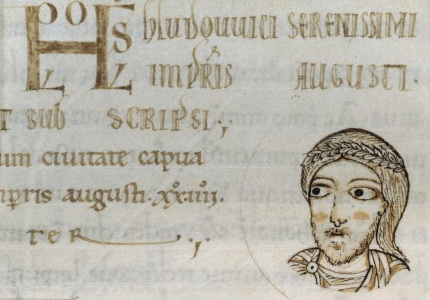 Louis II, king of Italy and emperor of the Romans. (Bibliothèque nationale de France, Latin 5411, fol. 85v)